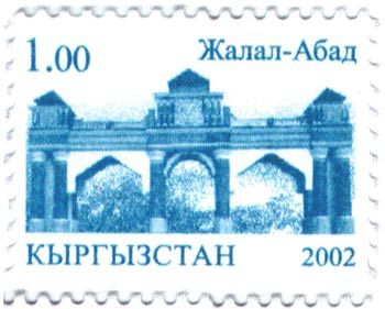 Stamp of Kyrgyzstan : monumental gate at the entrance of Jalal-Abad